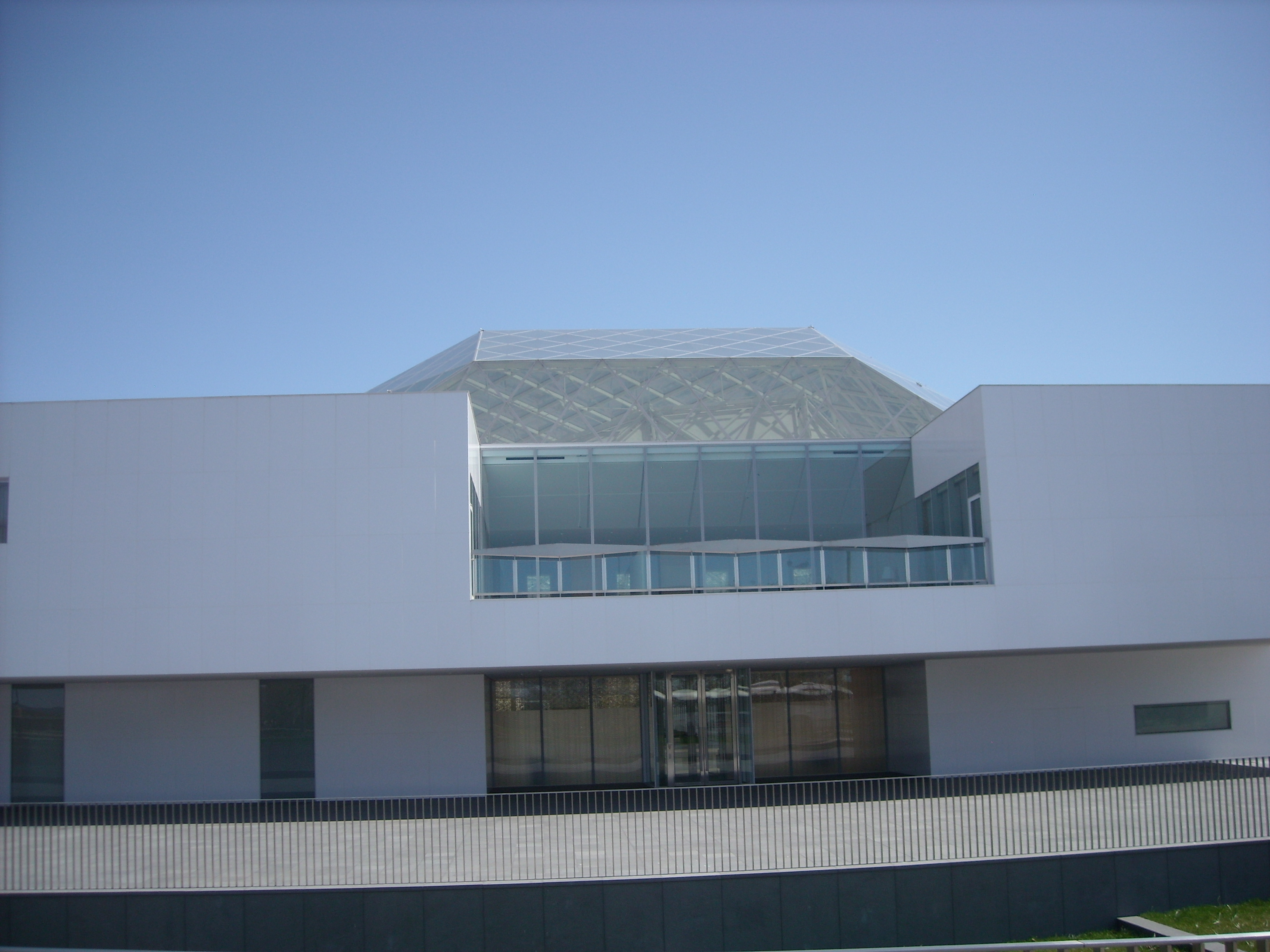 Front entrance view of the Delegation of the Ismaili Imamat in Ottawa, Ontario, Canada.